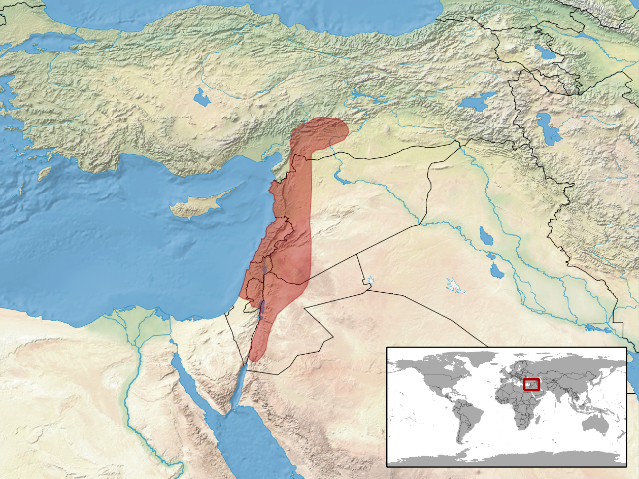 geographic distribution of Eirenis rothii (Native: Israel; Jordan; Lebanon; Syrian Arab Republic; Turkey)